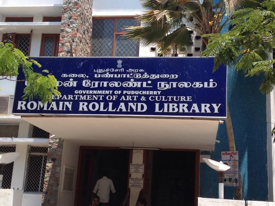 Roman Rolland Library,Puducherry (union territory),India